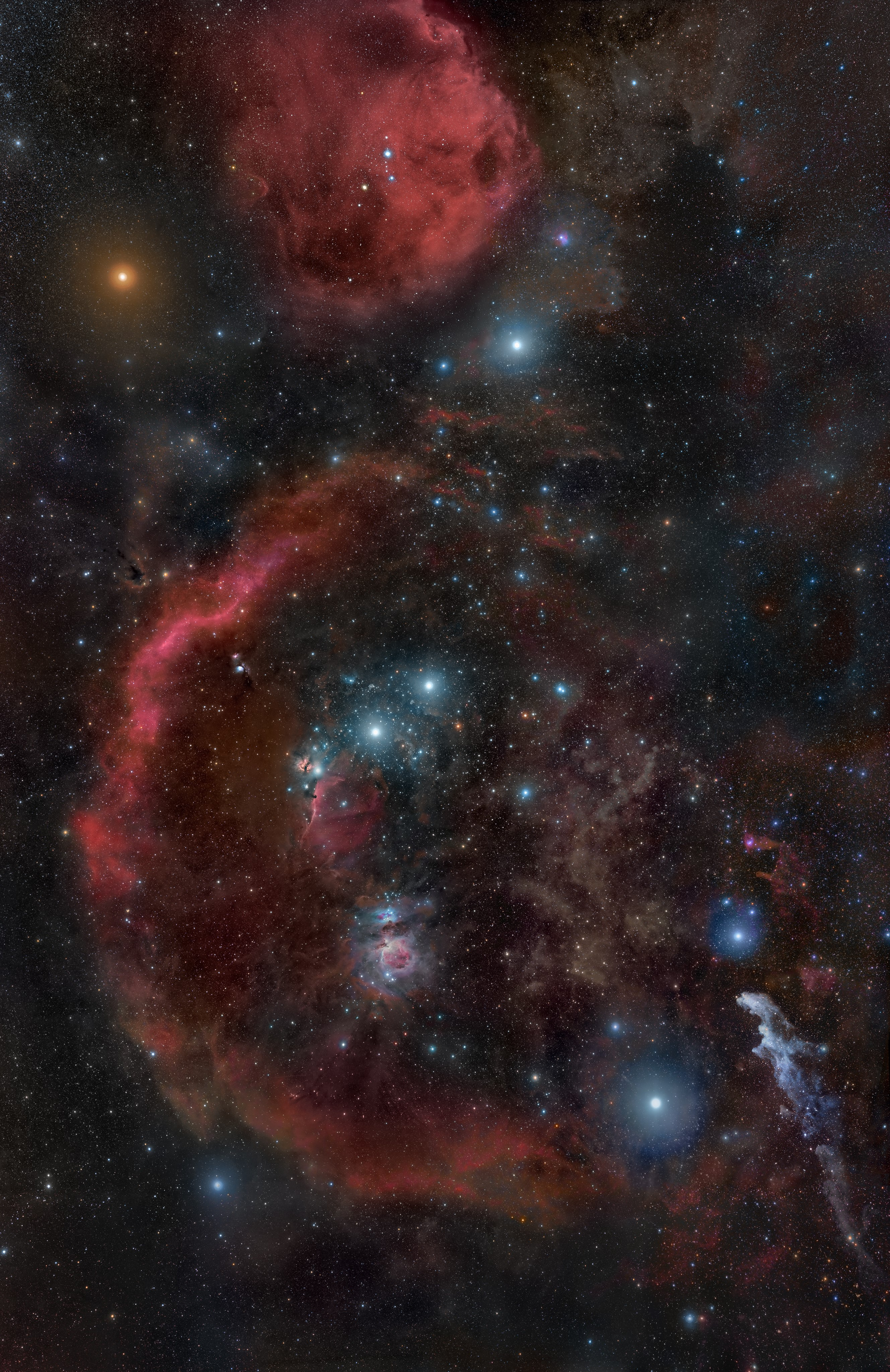 Photo taken by Rogelio Bernal Andreo in October 2010 of the Orion constellation showing the surrounding nebulas of the Orion Molecular Cloud complex. Also captured is the red supergiant Betelgeuse (top left) and the famous belt of Orion composed of the OB stars Alnitak, Alnilam and Mintaka. To the bottom right can be found the star Rigel. The red crescent shape is Barnard's Loop. The photograph appeared as the Astronomy Picture of the Day on October 23, 2010.